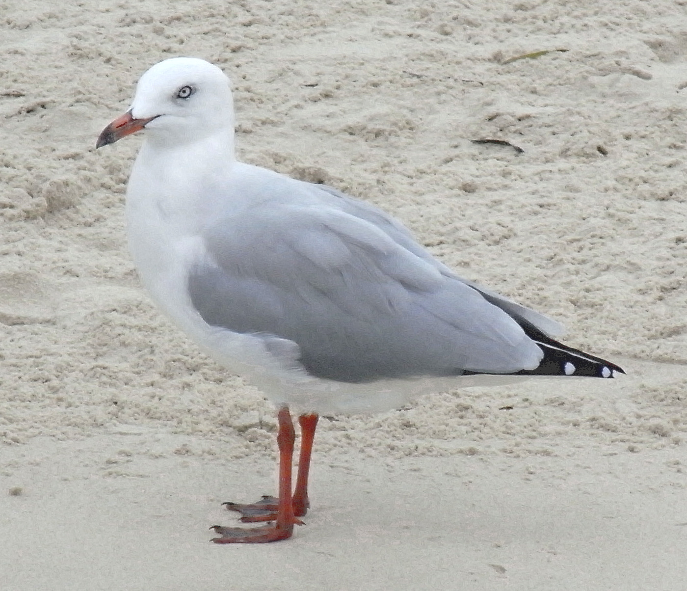 Silver Gull (Chroicocephalus novaehollandiae) on Mermaid Beach, Queensland, Australia.